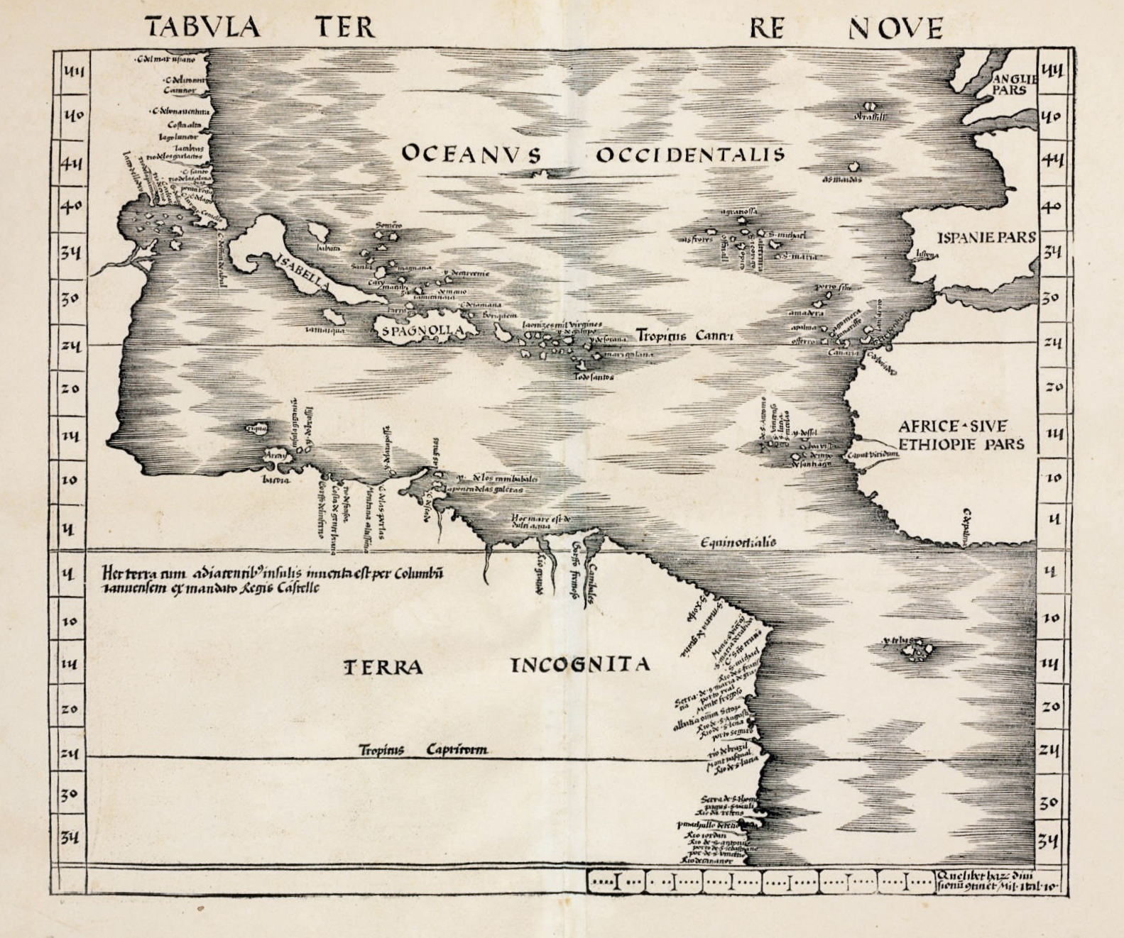 Ptolemy (Claudius Ptolemaeus). Geographiae opus novissima traductione e Grecorum archetypis castigatissime pressum. Translated from the Greek into Latin by Mathias Ringmann. Strassburg: Johannes Schott, 12 March 1513.